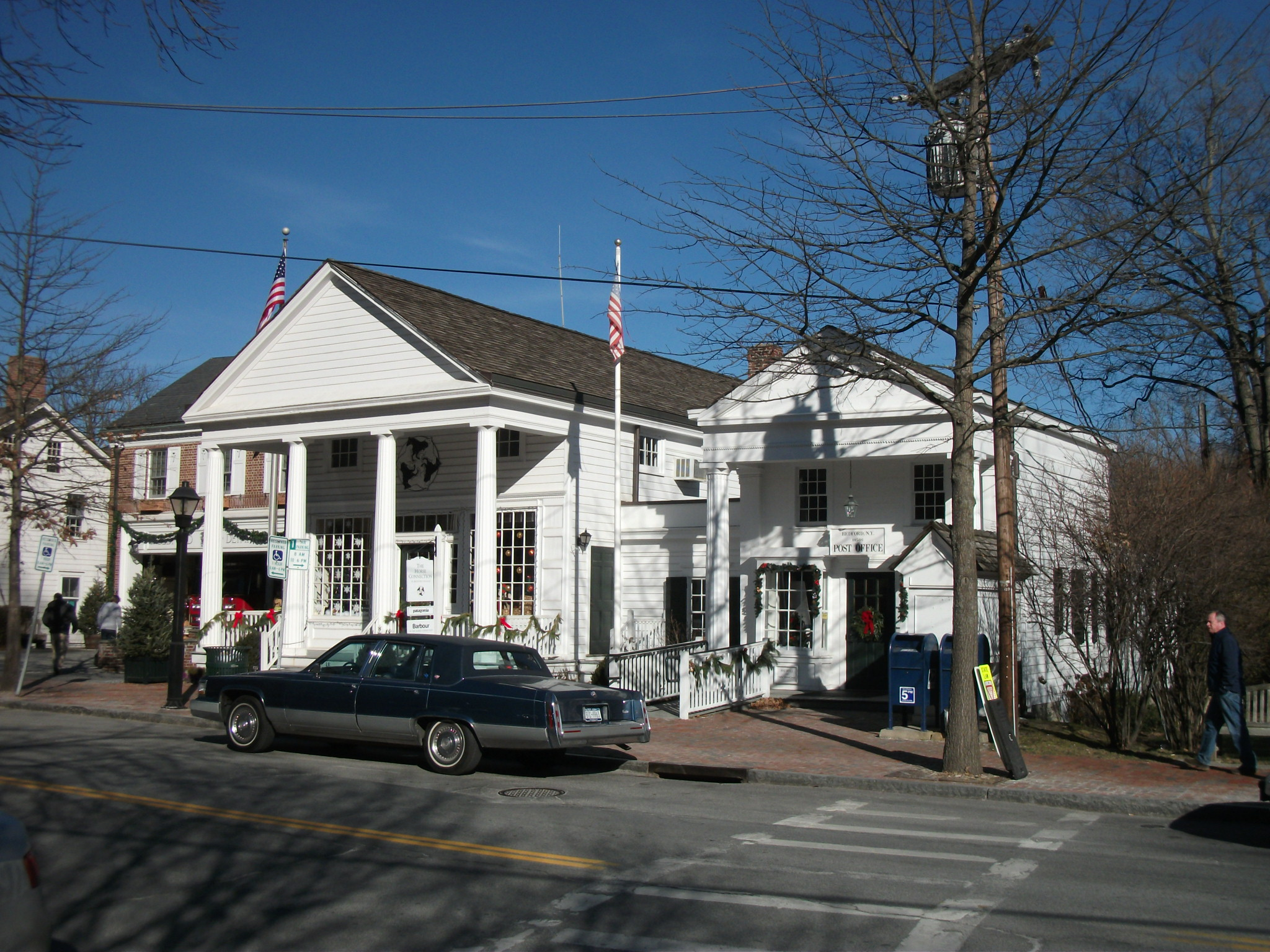 Bedford Post Office and an adjoining building in the Bedford Village Historic District